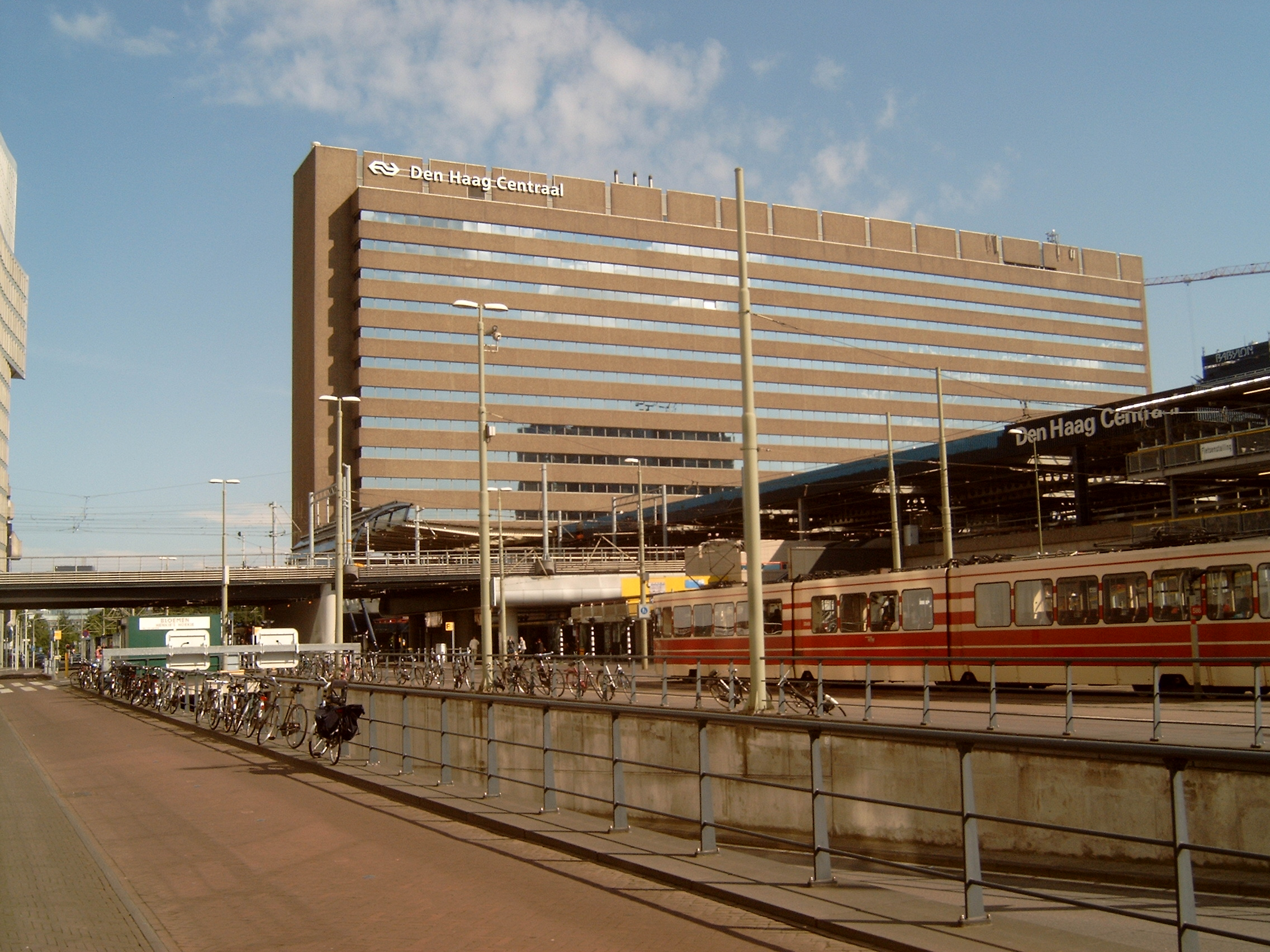 The Hague, central station